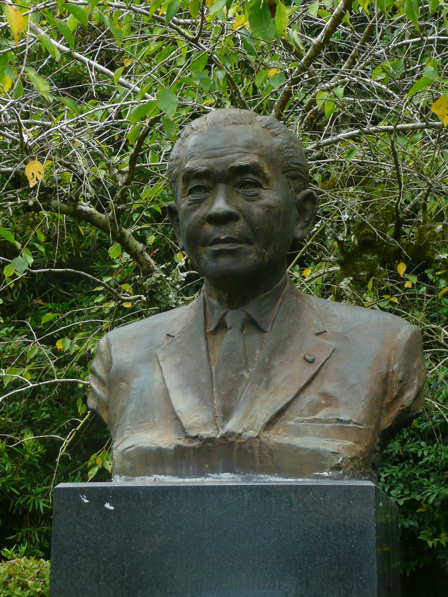 Susumu Nikaidō's Bust. He was a menber of the House of Representatives.